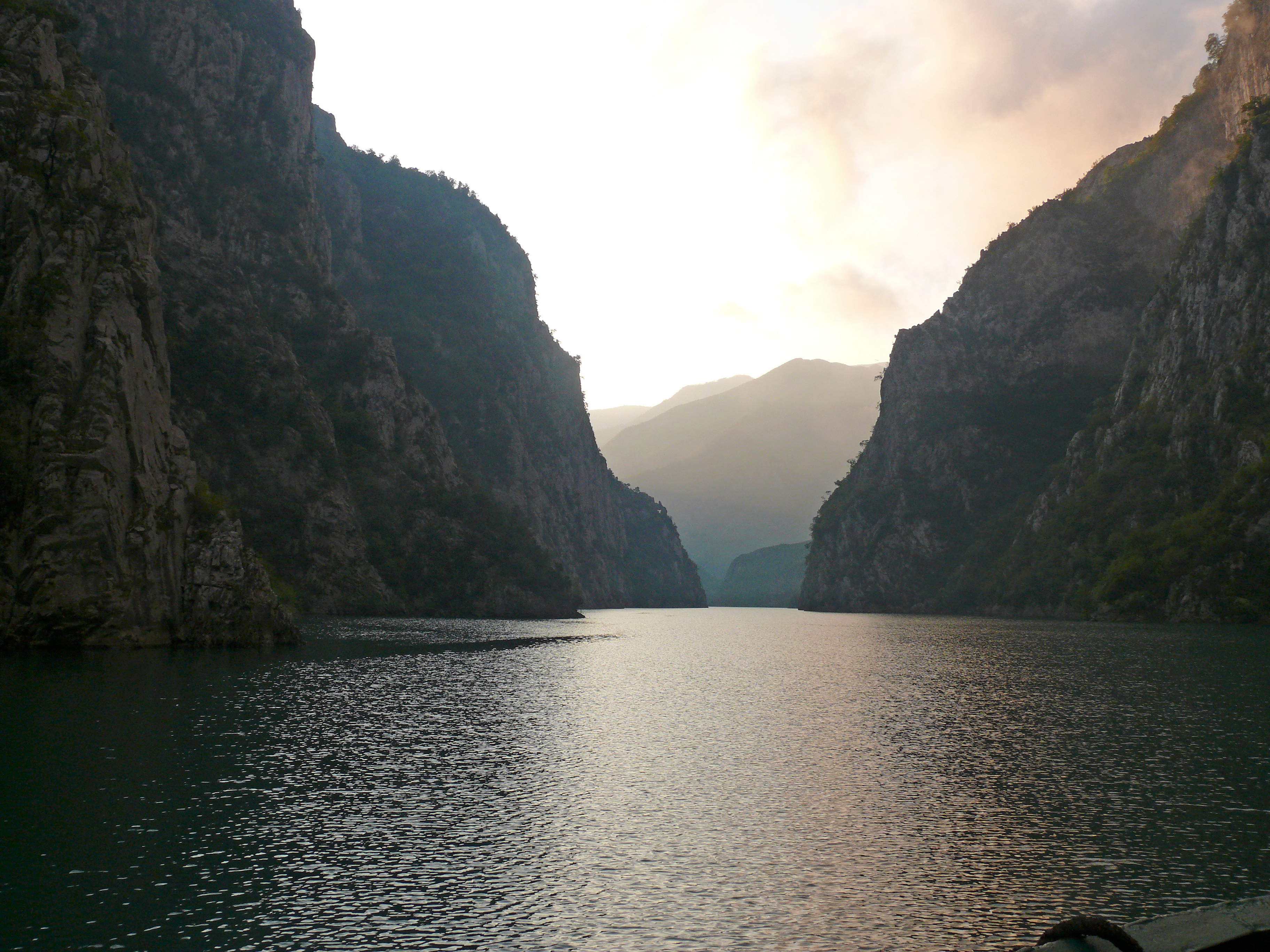 Lake Komani from ferry